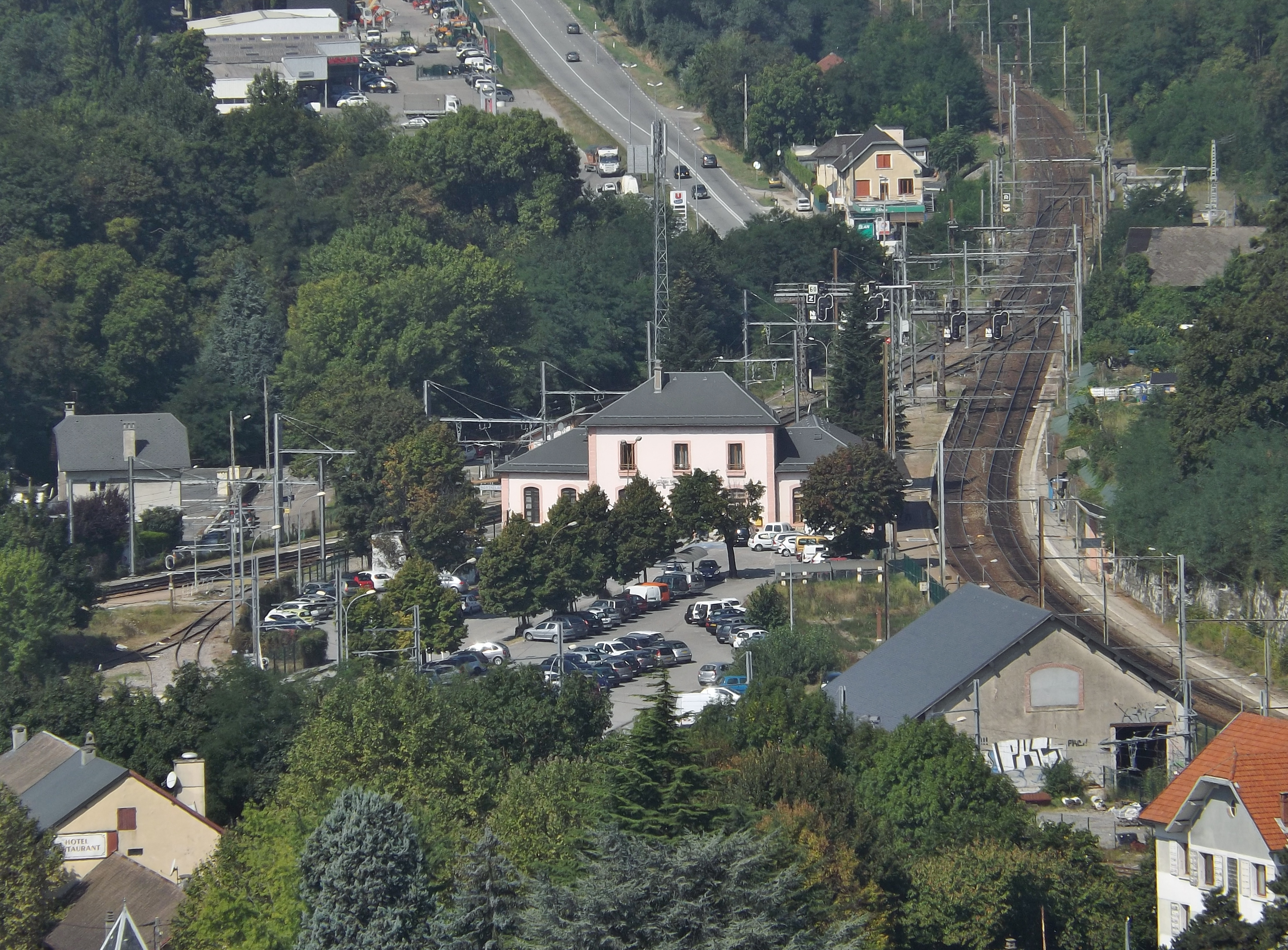 Aerian sight of the city of Montmélian railway station. In this station, lines from Grenoble (left) and the Savoyan Alps (right) meet to join Chambéry 15 km away, in Savoie, France.